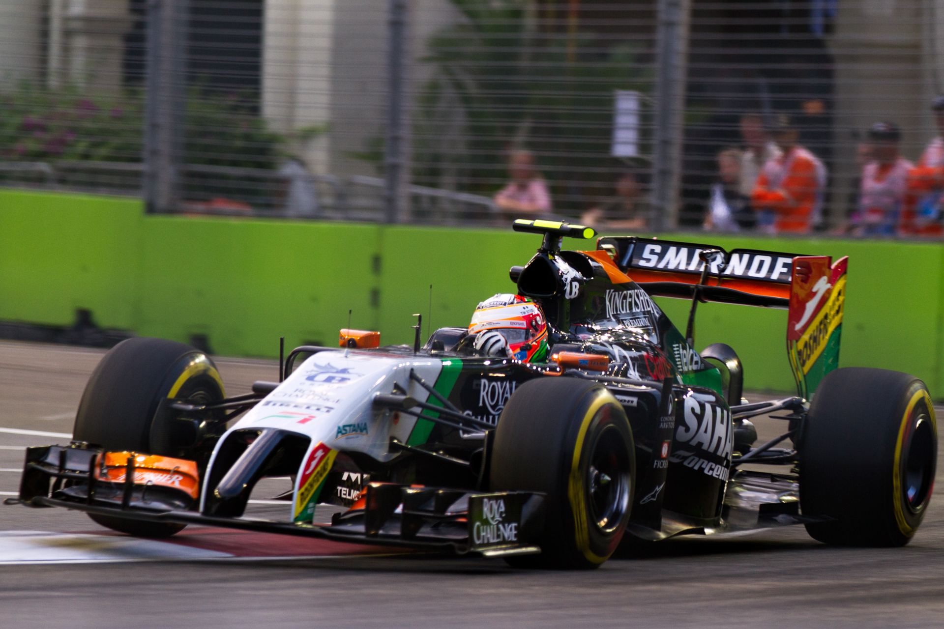 Formula One 2014 Rd.14 Singapore GP: Sergio Pérez (Force India)